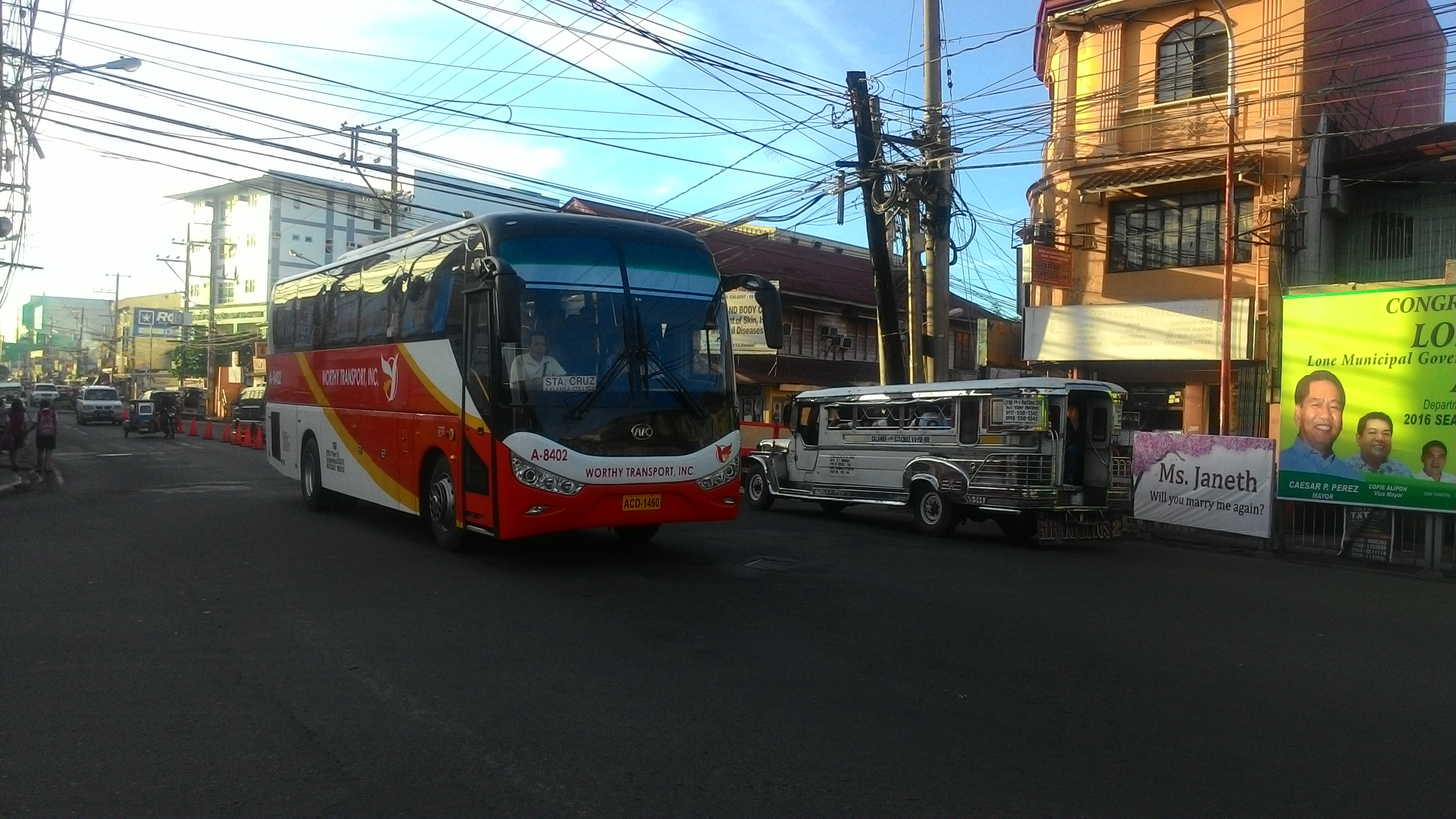 A Worthy Transport Inc. bus heading to Sta. Cruz. Aside from operating the Sta. Cruz line, they have a Cubao line.